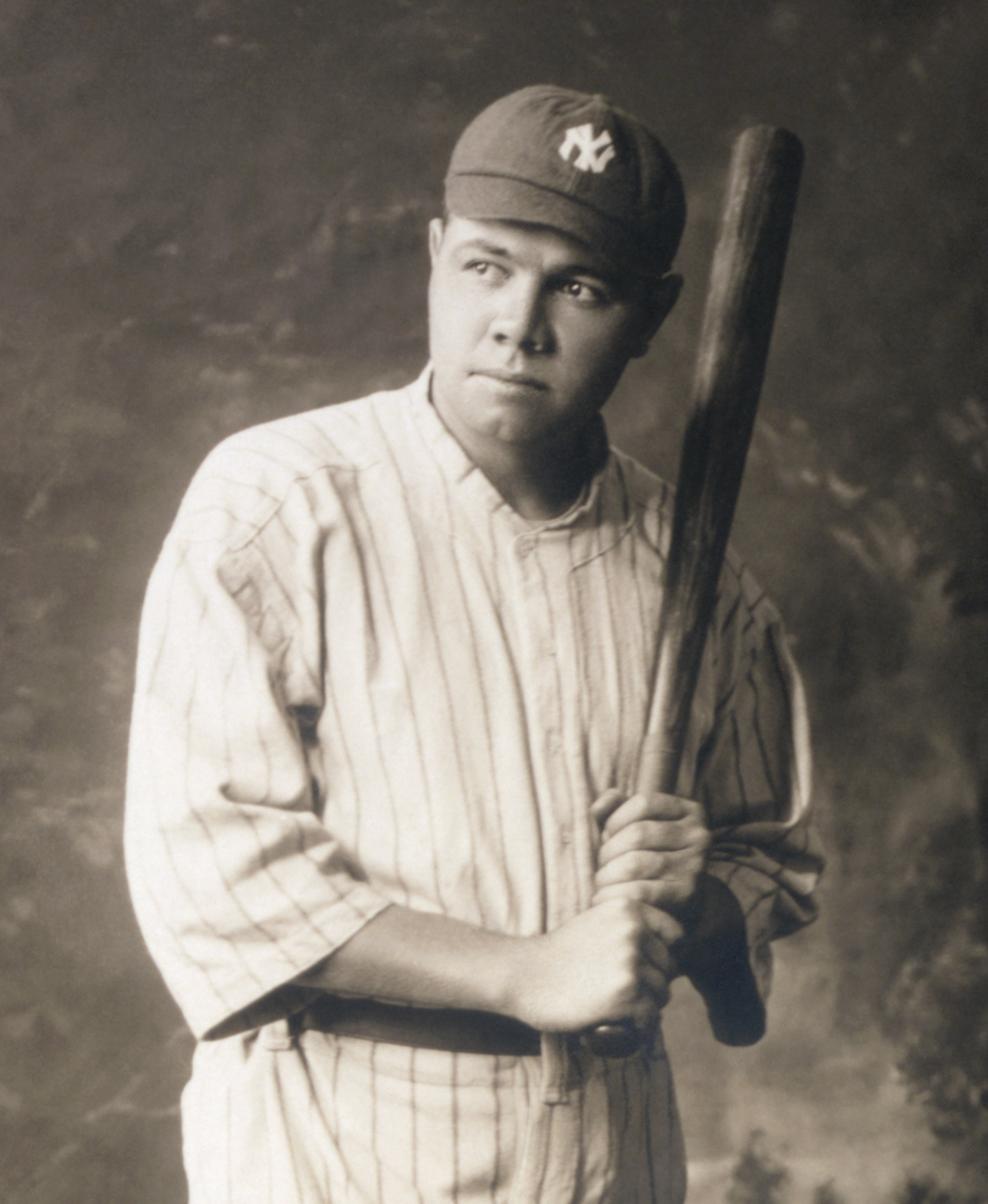 Babe Ruth, full-length portrait, standing, facing slightly right, in baseball uniform, holding baseball bat. Facsimile signature on image: "Yours truly "Babe" Ruth."